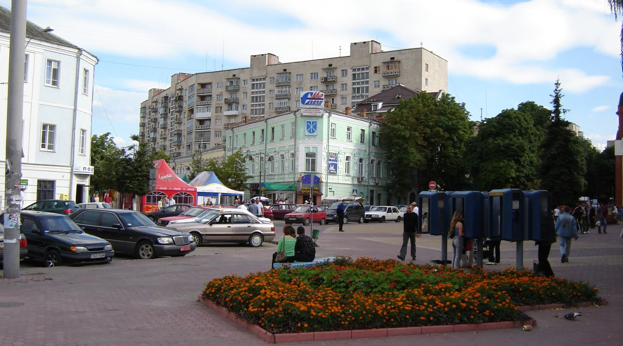 View of Proskurivska street in Khmelnitsky, Ukraine. The beginning of city's main street is shown.